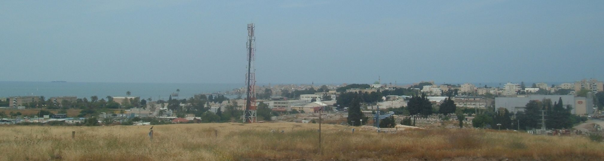 view from napoleon's hill, acre, israel הנוף הנשקף מתל עכו